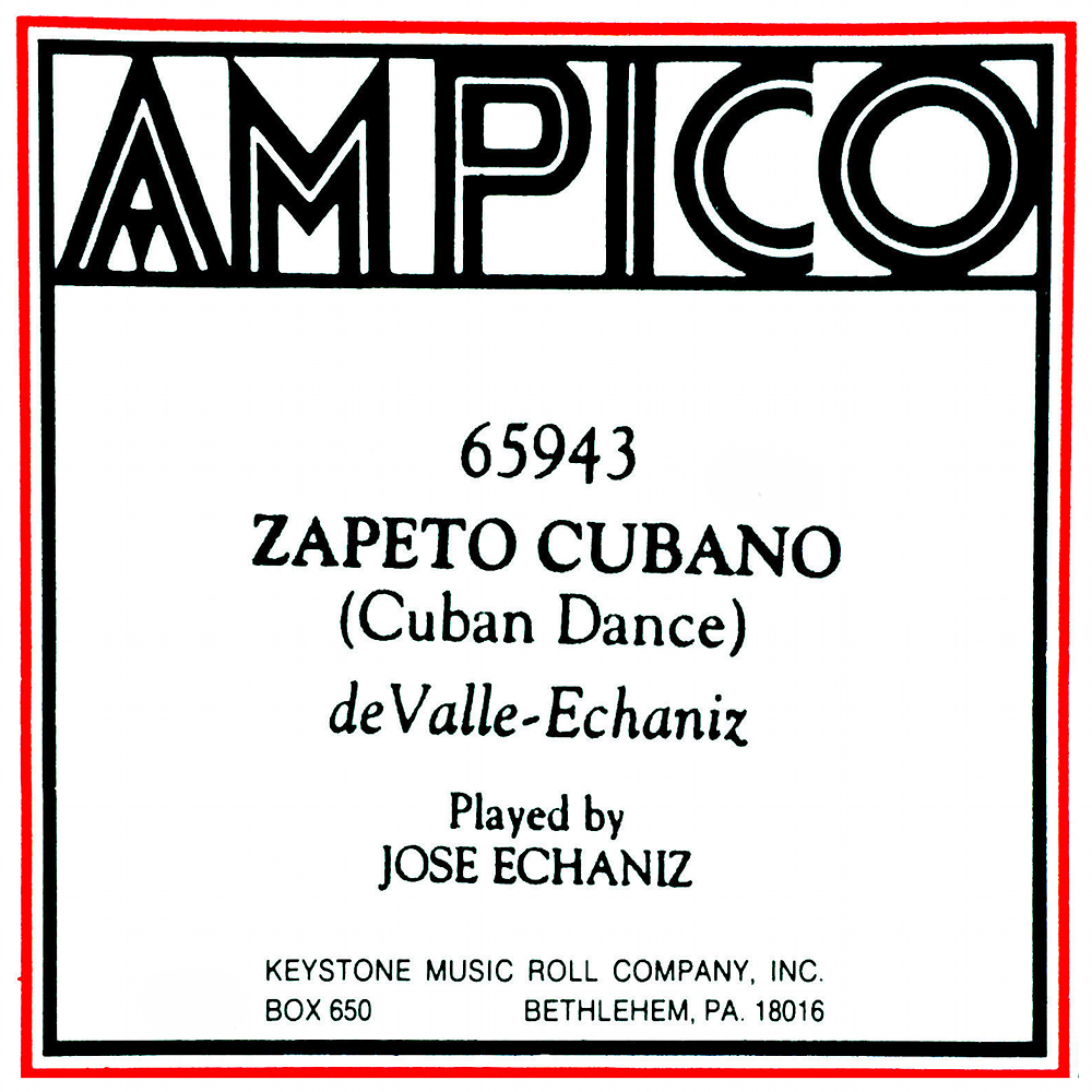 Label from end of an AMPICO piano roll. "Zapateo cubano" by composer Anselmo González del Valle, arranged and played by Cuban-born pianist José Echániz.